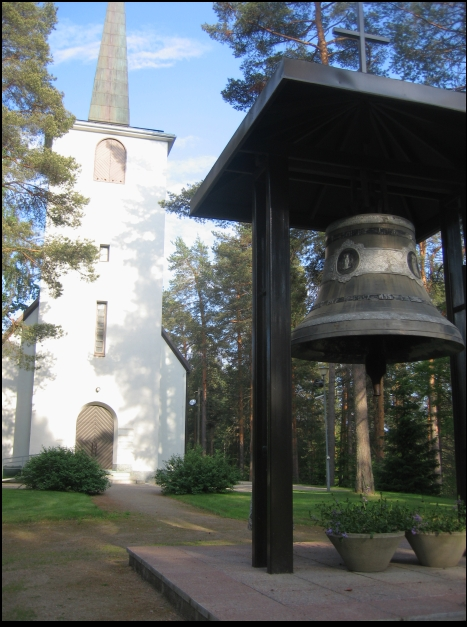 Riistavesi church in Kuopio, Finland